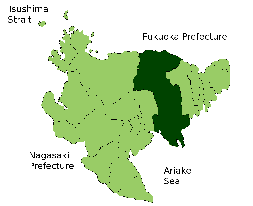 Location Map of Saga in Saga Prefecture, Japan